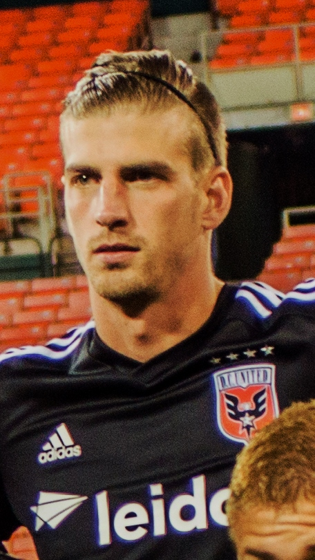 2015/16 Scotiabank CONCACAF Champions League (DC United vs. Deportivo Arabe Unido) (Sept. 2015) Conor Doyle